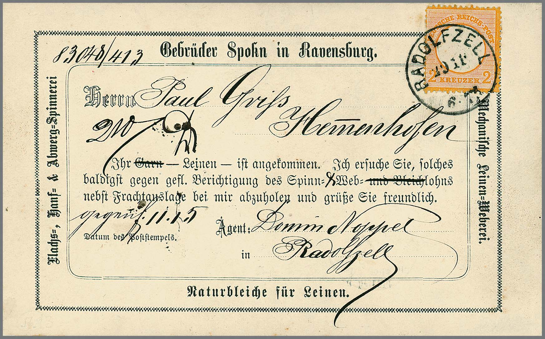 German Offene Karte (Drucksachenkarte, Vertreterkarte), cancelled at RADOLFZELL (district of BADEN CONSTANZ) with a 2 kreuzer stamp, issue 1872